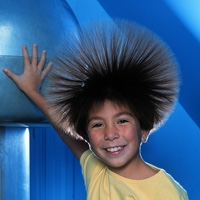 A boy touching the high voltage terminal of a Van de Graaff generator at a science museum. He is isolated from the ground by standing on an insulated platform, allowing his body to be charged to a high voltage. The charge on individual strands of his hair causes them to repel each other, standing out straight away from his head.